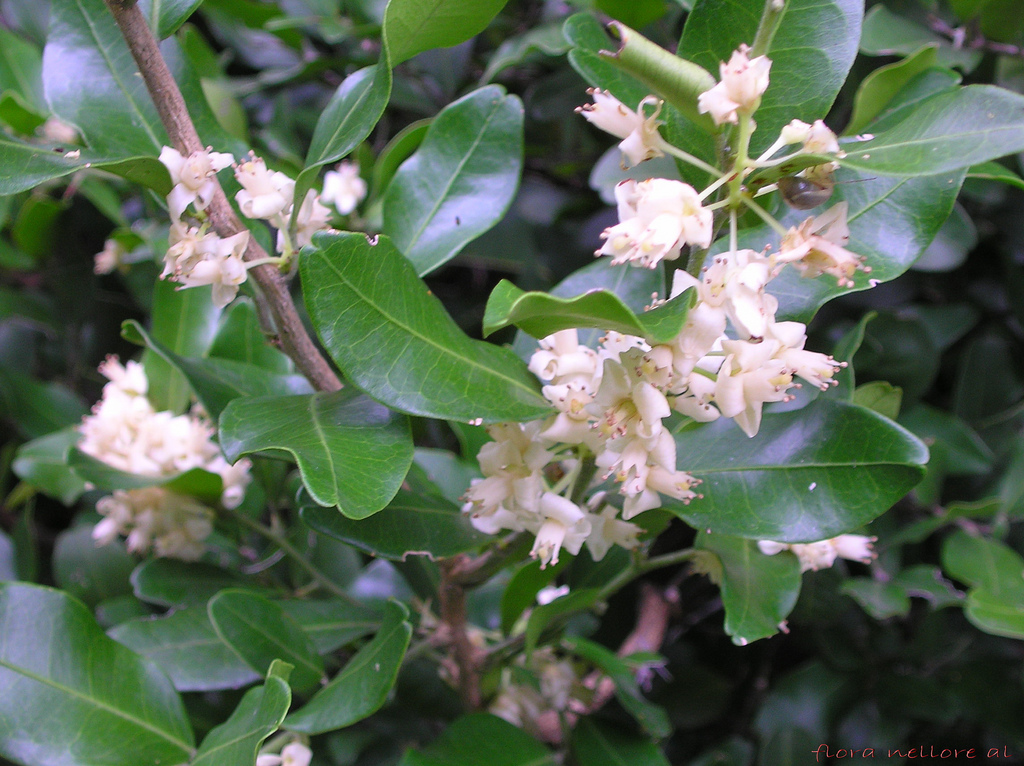 Atalantia racemosa Photographed at Eastern Ghats of Nellore district, India